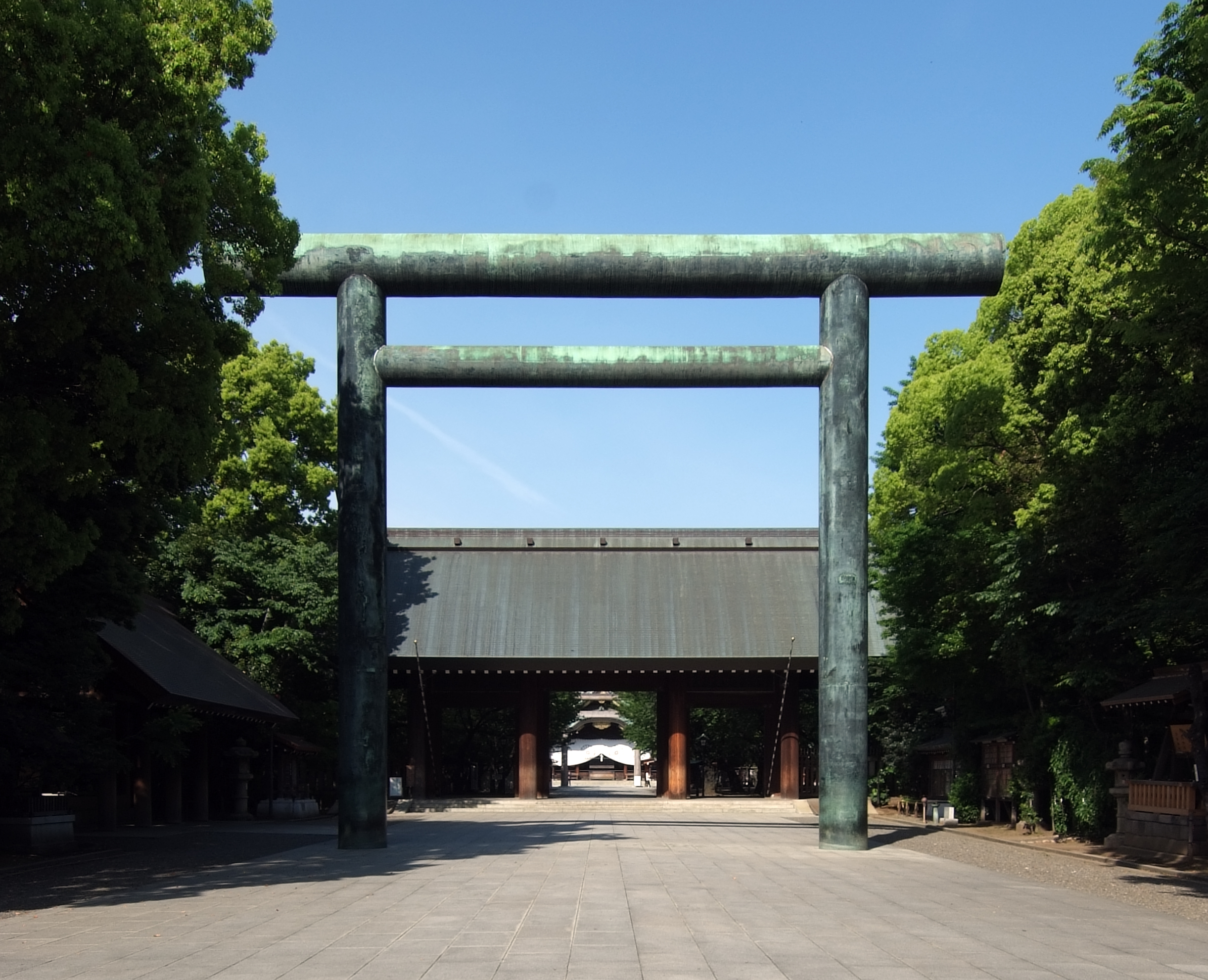 Daini Torii of Yasukuni Shrine in Tokyo.